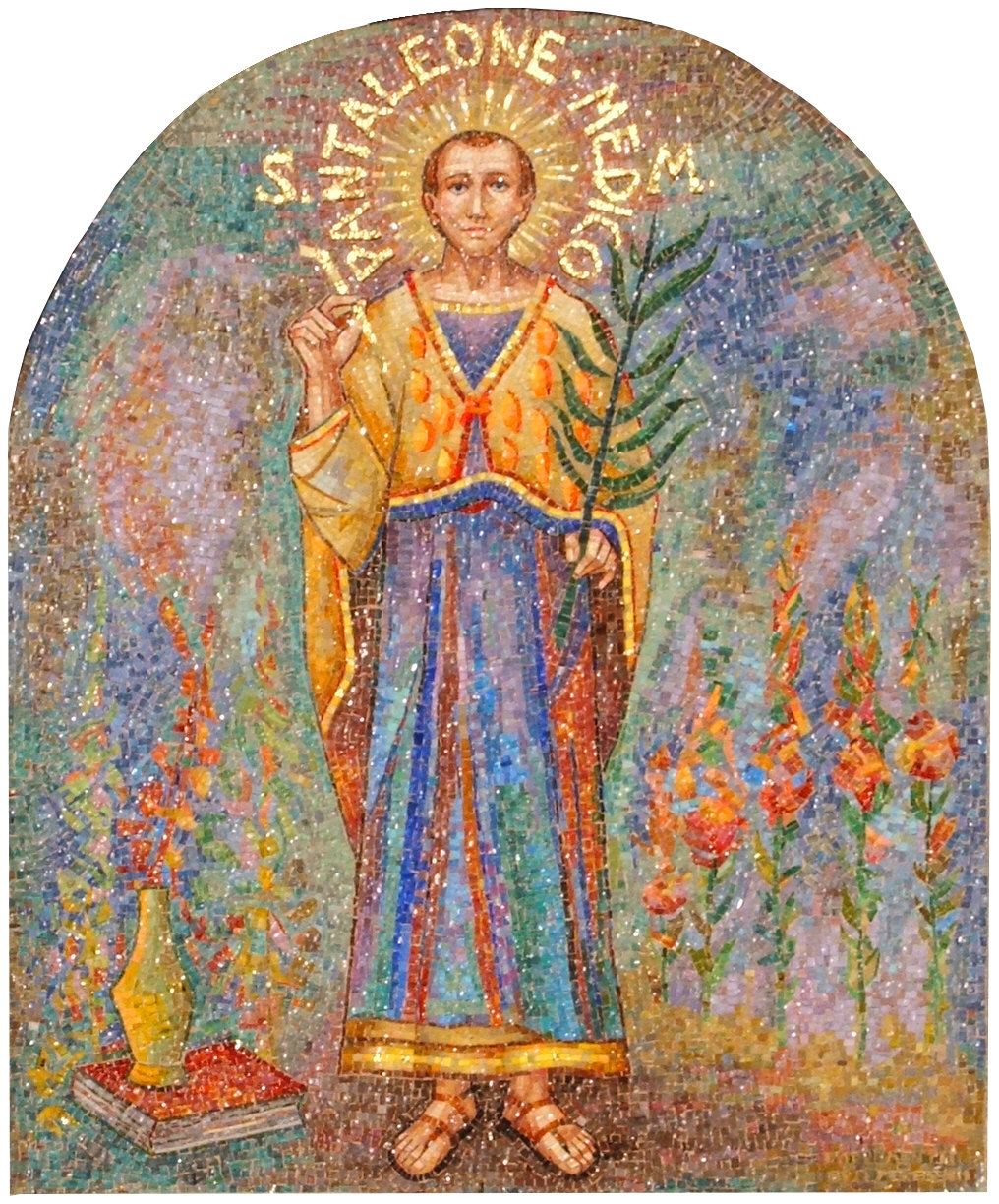 Madone (BG) - Lombardy - Italy, Saint Pantaleone church, detail